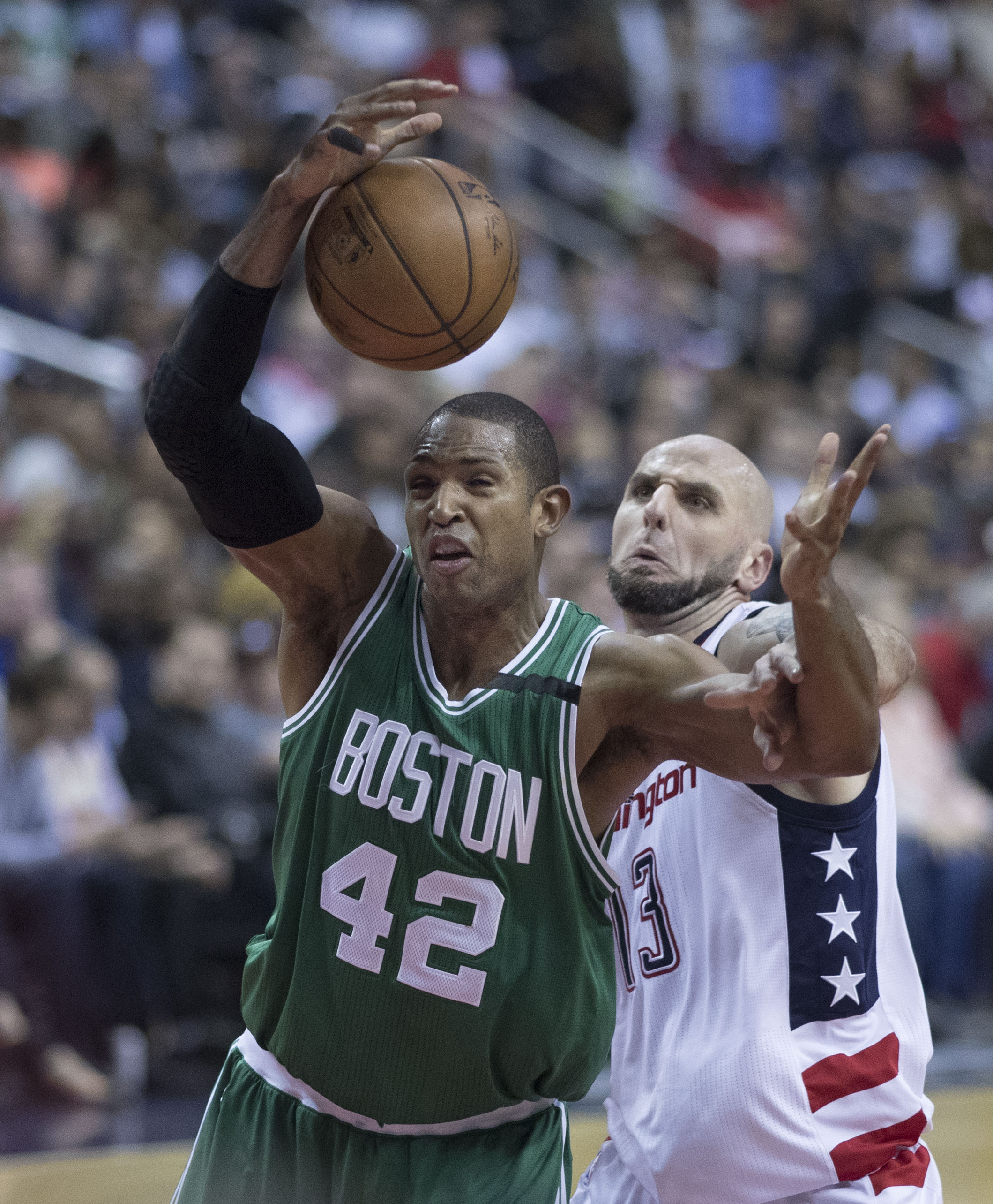 Celtics at Wizards 5/4/17